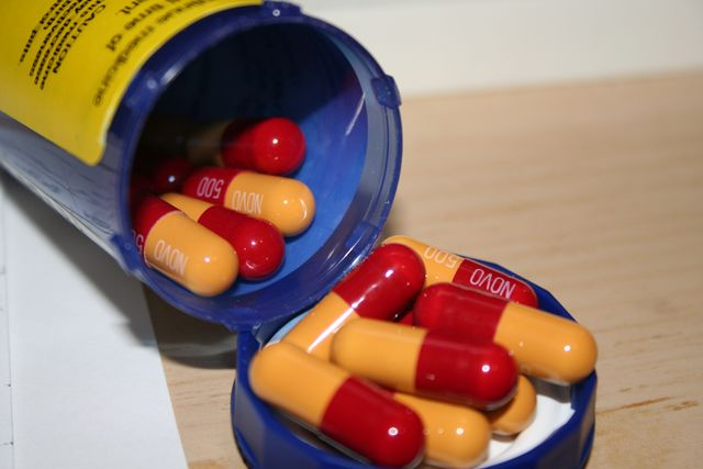 Novamoxin Prescription Drug - Amoxicillin Trihydrate (H-6) 500 mg